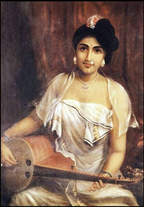 A Keralite lady playing a veena like musical instrument Swarabat.